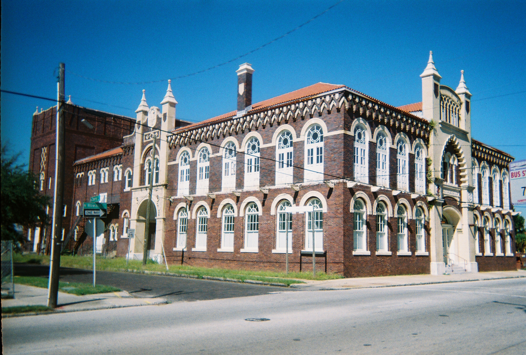 El Centro Espanol of West Tampa, in Tampa, Florida